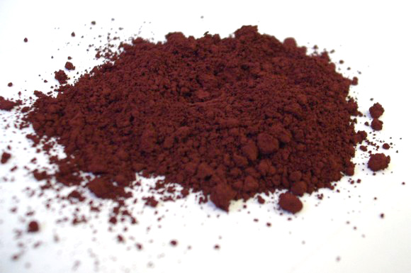 Iron oxide red bluish